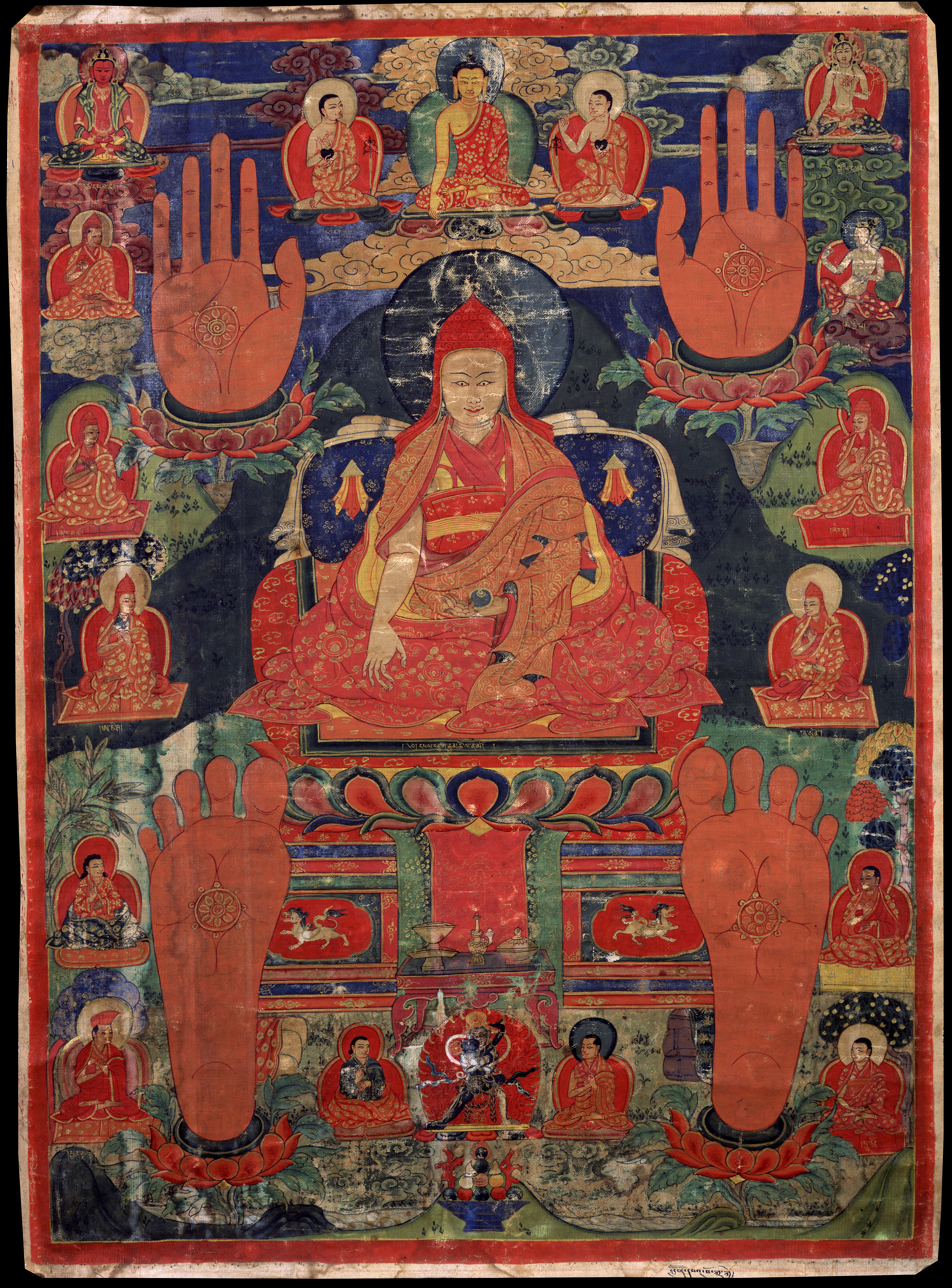 Portrait of Tsuglag Gyatso, the Third Pawo Rinpoche, painting, pigment on cloth (c. 1567-1630)